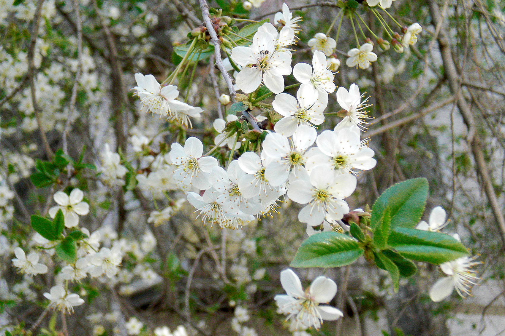 вишневое дерево, Ahtubinsk, spring